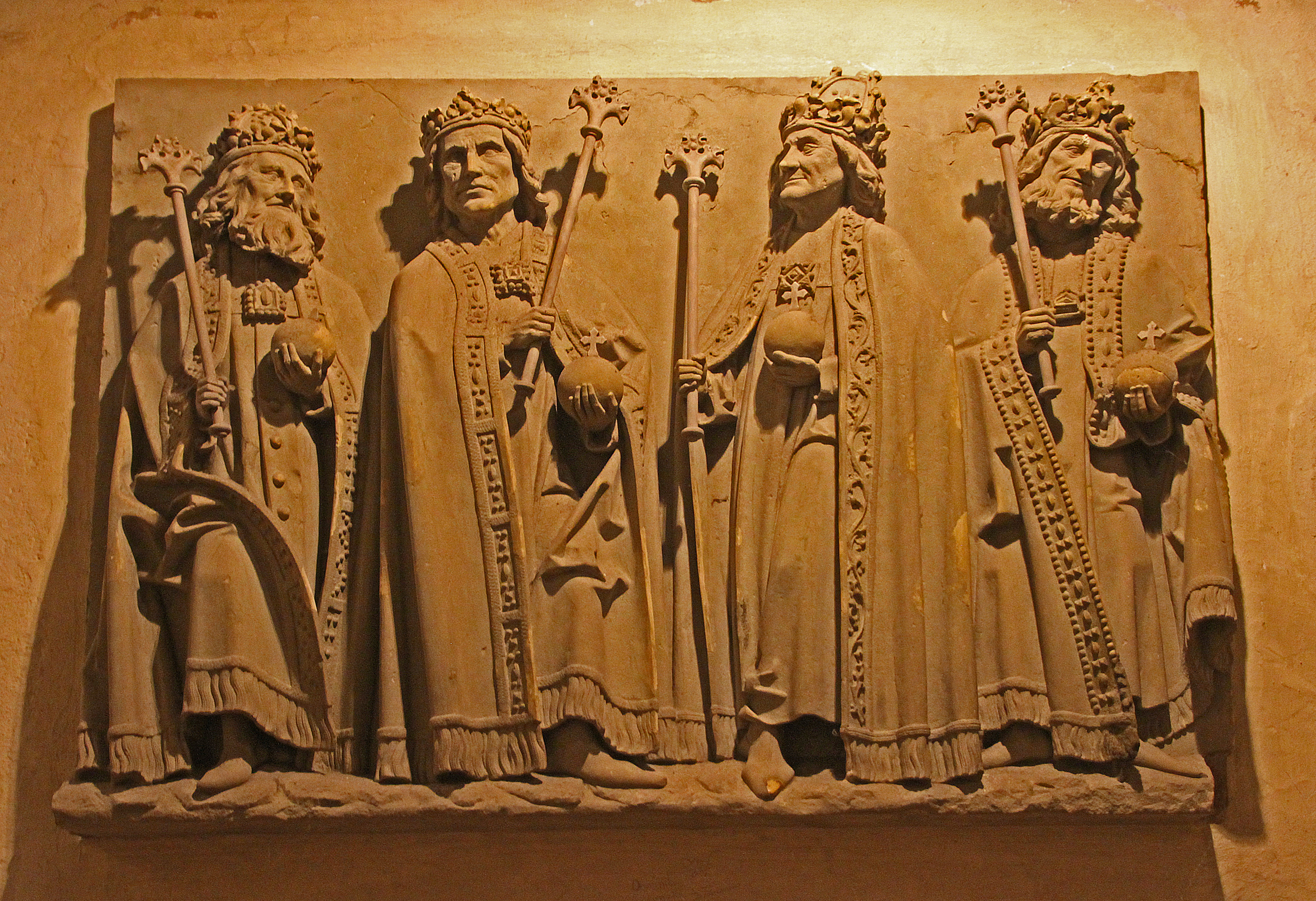 Gohic relief in Speyer cathedral with emperors Konrad II., Heinrich III., Heinrich IV., Heinrich V.